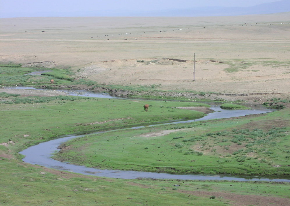 The Mongolian-Manchurian grassland region of the eastern Eurasian Steppe. Photographed in August 2002 near Kharkhorin (Harhorin), Övörkhangai, Mongolia.